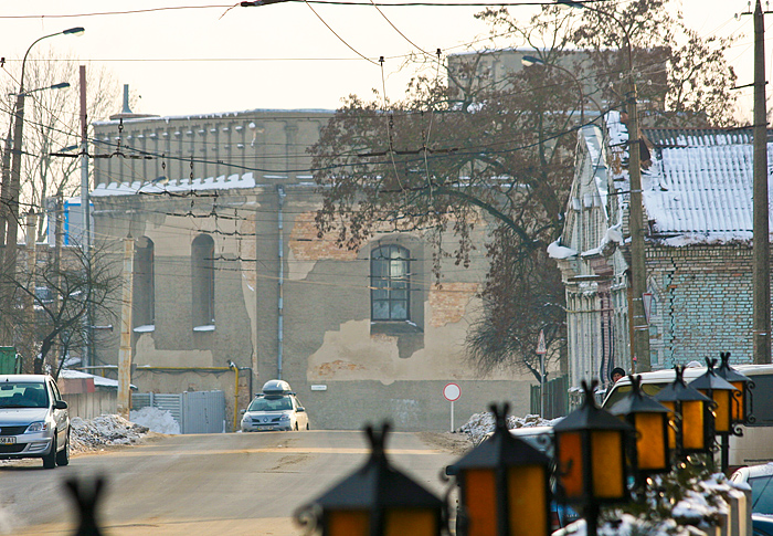 Daniel of Galicia street